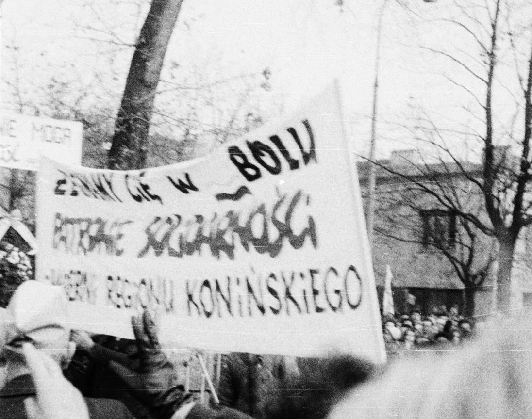 Funeral of Jerzy Popiełuszko at Saint Stanislaus Kostka Church in Warsaw